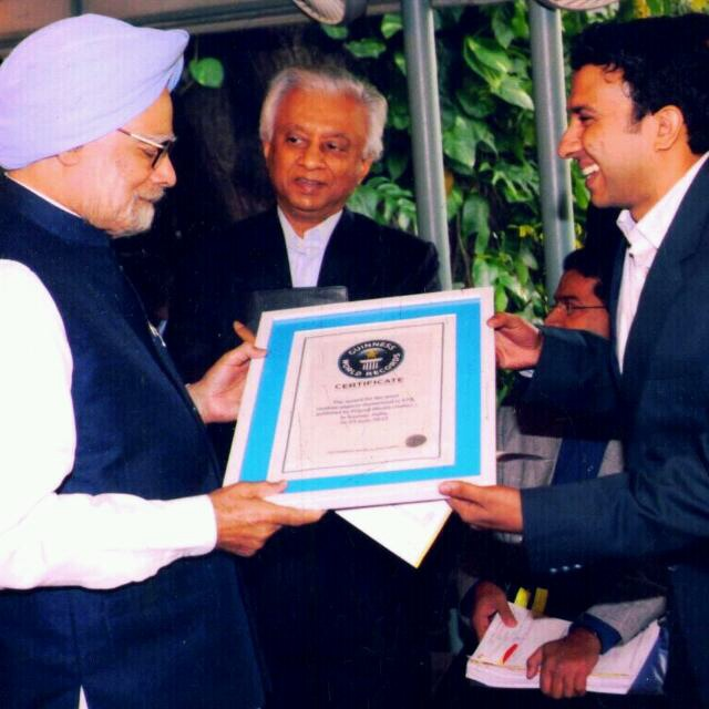 Prijesh Kannan receiving the Guinness world record certificate for Top Memory Power in the world from Dr. Manmohan Singh